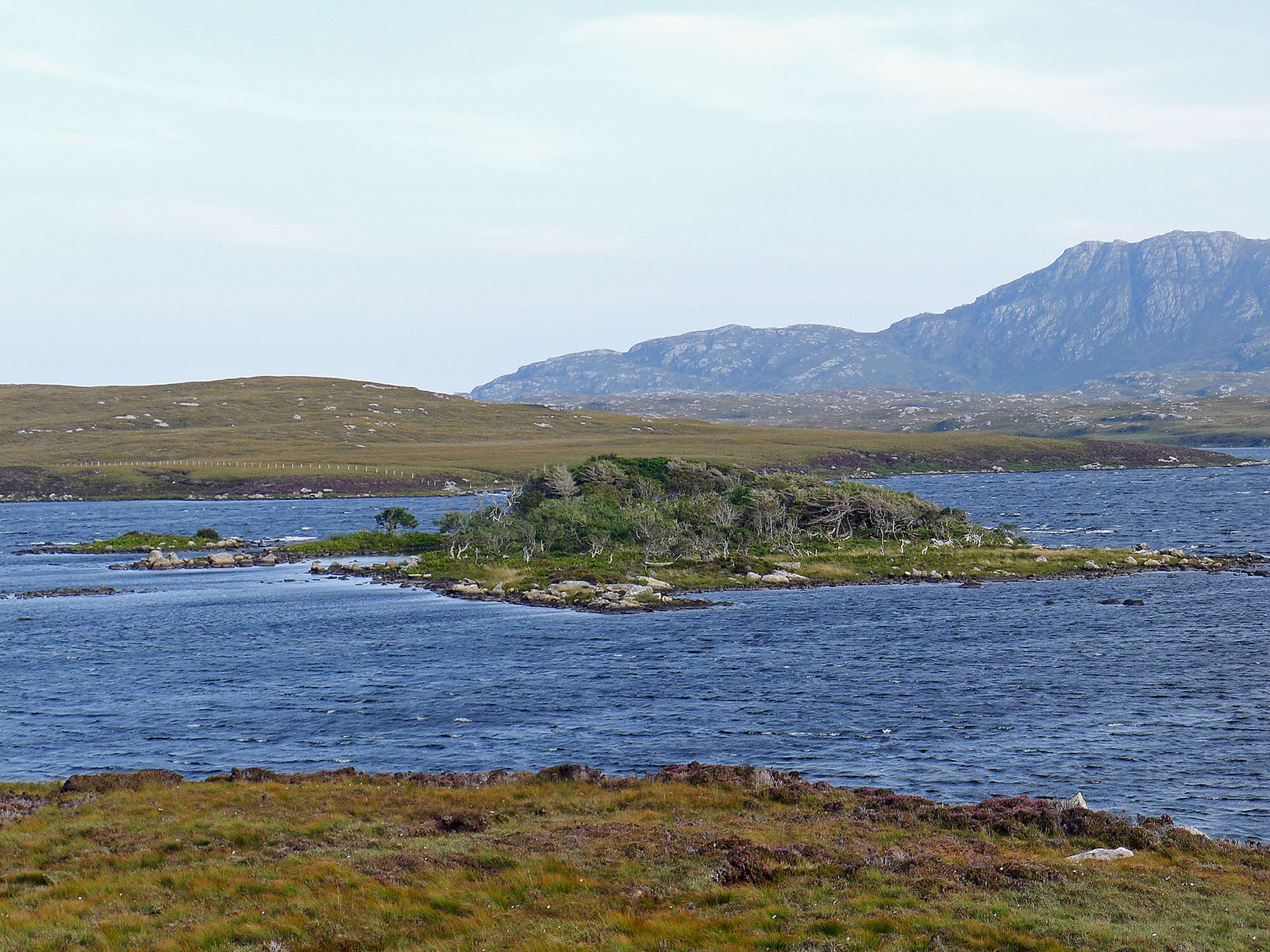 Loch Druidibeg and Hecla